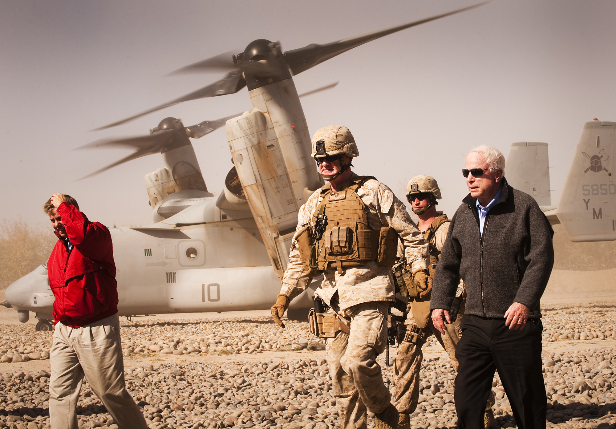 Senators Lindsey Graham and John McCain, along with Maj. Gen. Richard P. Mills, commander, regional command (southwest) and the commanding general, 1st Marine Expeditionary Force (Forward), make their way off of the Forward Operating Base Jaker landing zone during a visit to Nawa, Afghanistan, Nov. 11, 2010. Graham, a senior senator from South Carolina, and McCain, a senior senator from Arizona, along with Senators Kirsten Gillibrand, a junior senator from New York, and Joseph I. Lieberman, a junior senator from Connecticut, visited Marines of 3rd Battalion, 3rd Marine Regiment, where they toured Khalaj High School, the Nawa District bazaar and the Nawa District Governance Center as well as meeting with Nawa government officials.